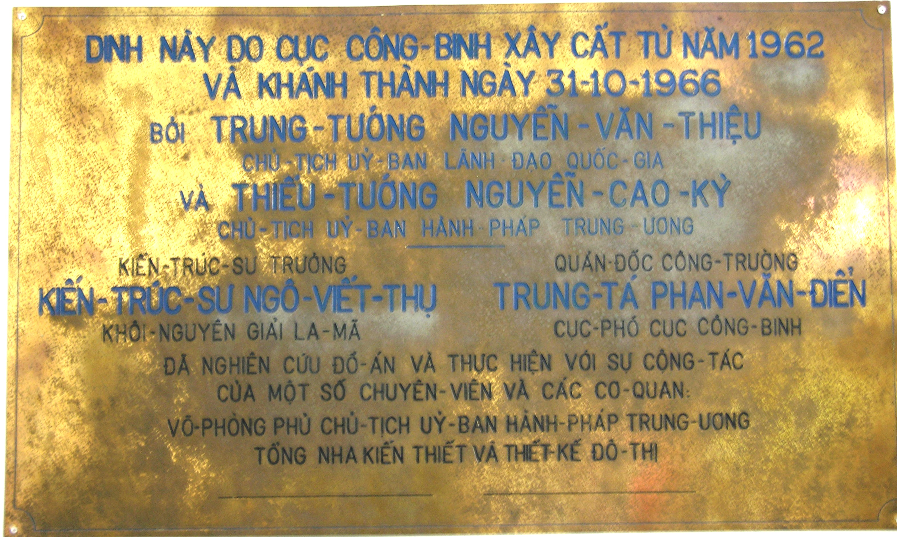 Reunification Palace's Open Stele